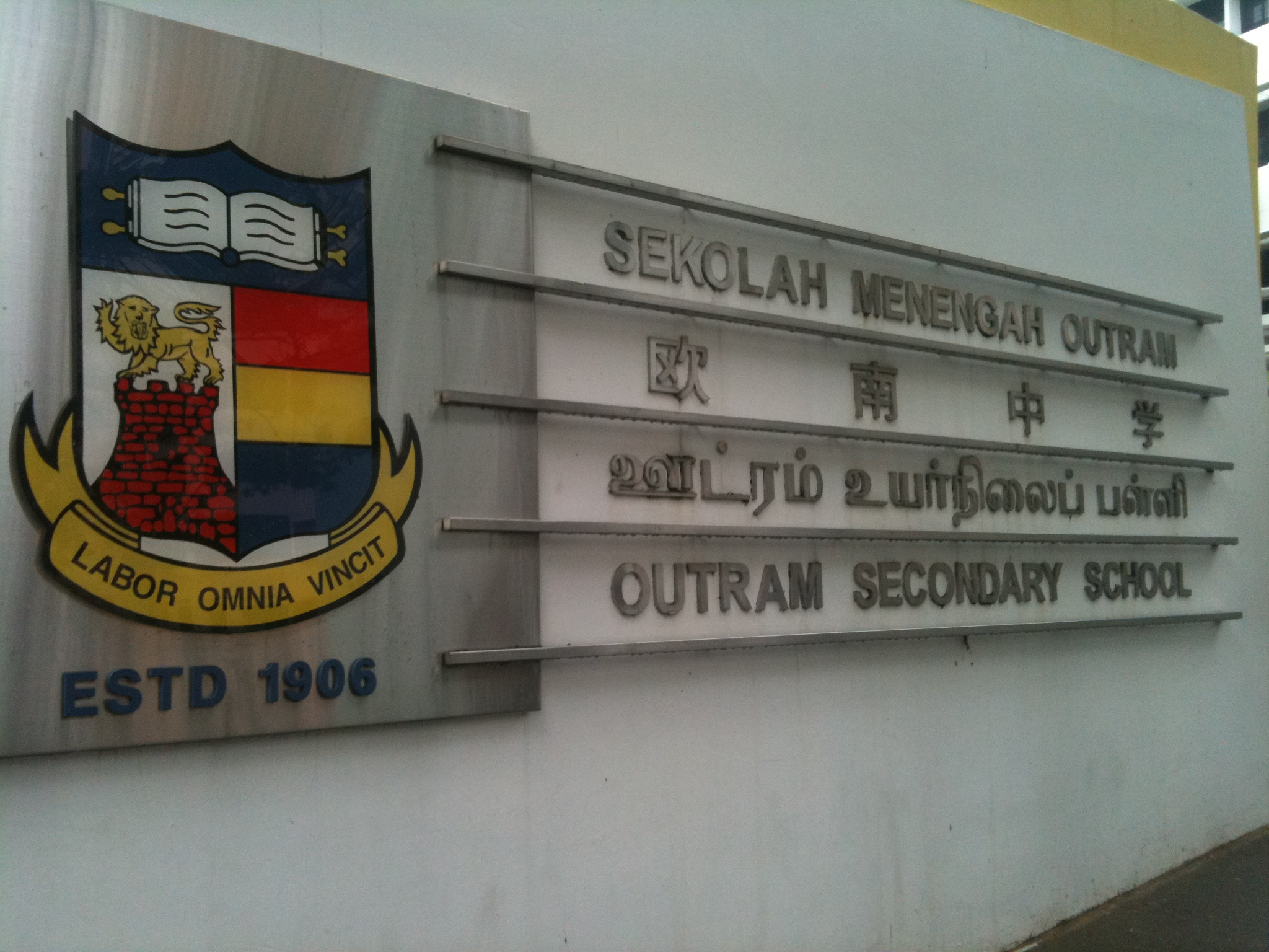 The gate of Outram Secondary School in Outram, Singapore.